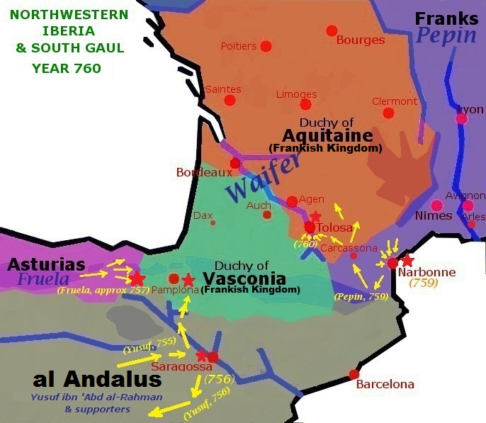 Actual territorial and political distribution both sides of the Pyrenees in year 760.